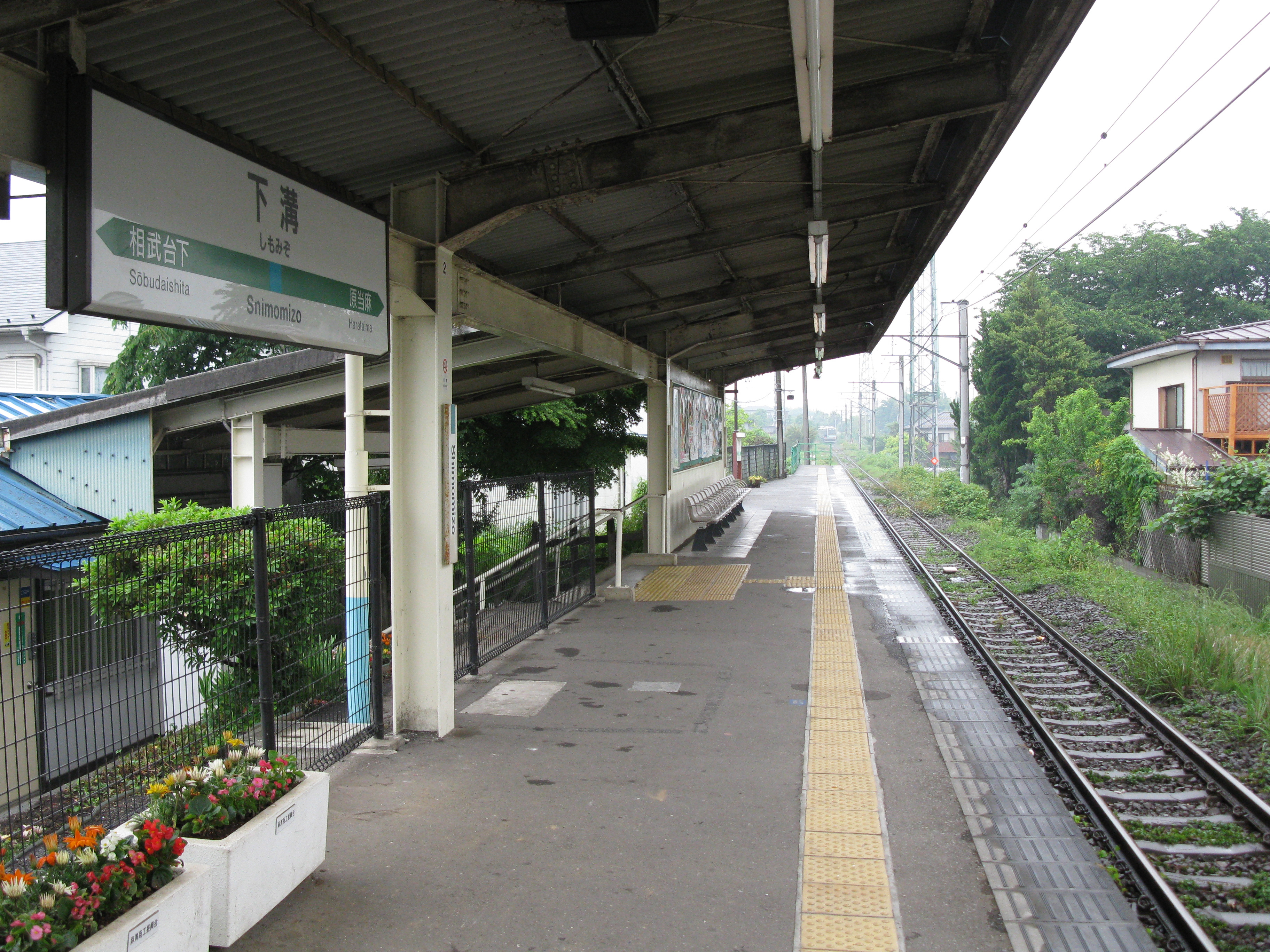 Shimomizo Station platform (East Japan Railway(JR East) Sagami Line)